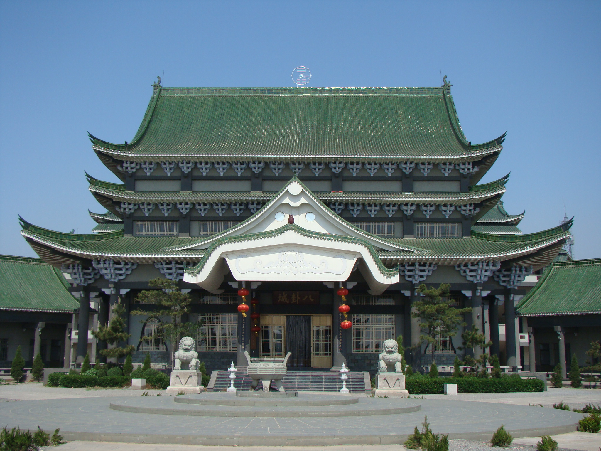 The Temple of the Eight Symbols (八卦城 or "City of the Eight Symbols", although this image only depicts the main temple hall) is the headquarters of the Weixinist Church (唯心教会) in Hebi (鹤壁市), Henan. Weixinism (唯心教) is an organisation synthesising and recasting Chinese religion and philosophy (founded on Yijing and fengshui principles) which was established in Taiwan in the late 20th and early 21st century. Since the 2000s it has rapidly spread to mainland China.